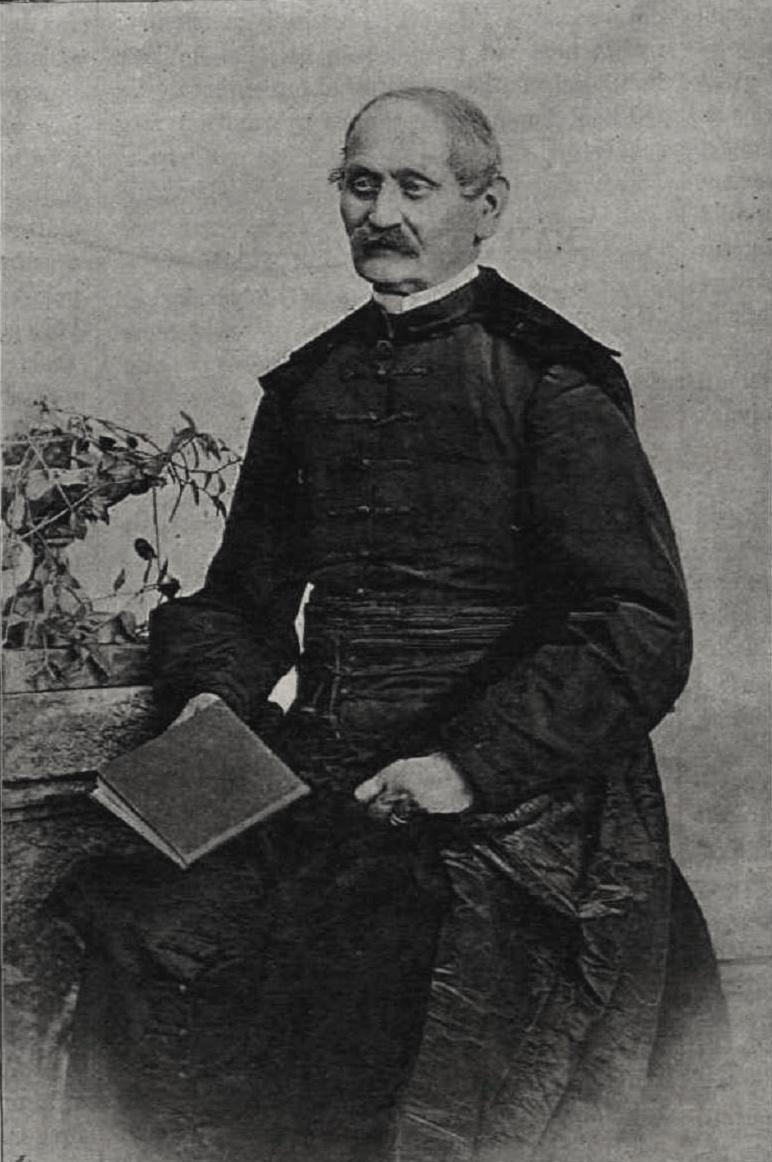 Bertalan Kun, bishop